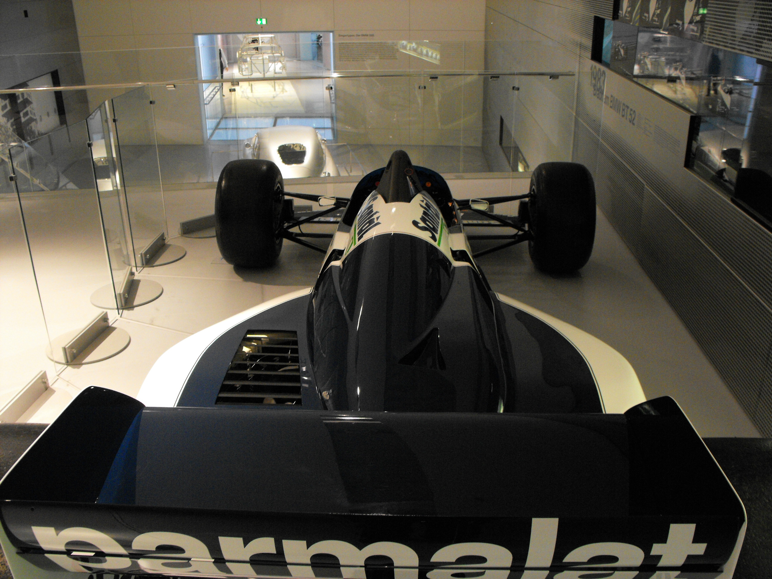 BRABHAM BMW BT52 1983